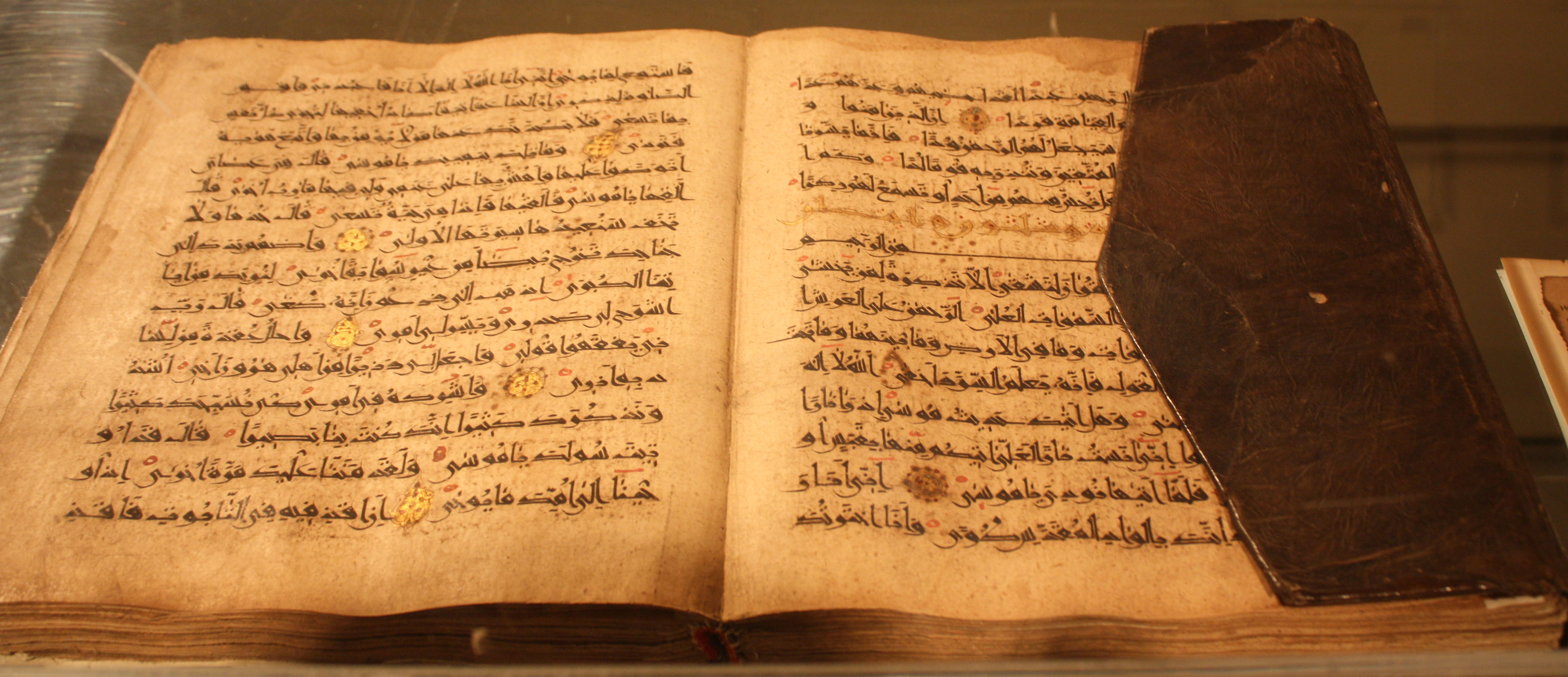 12th Century Qur’an in Reza Abbasi Museum